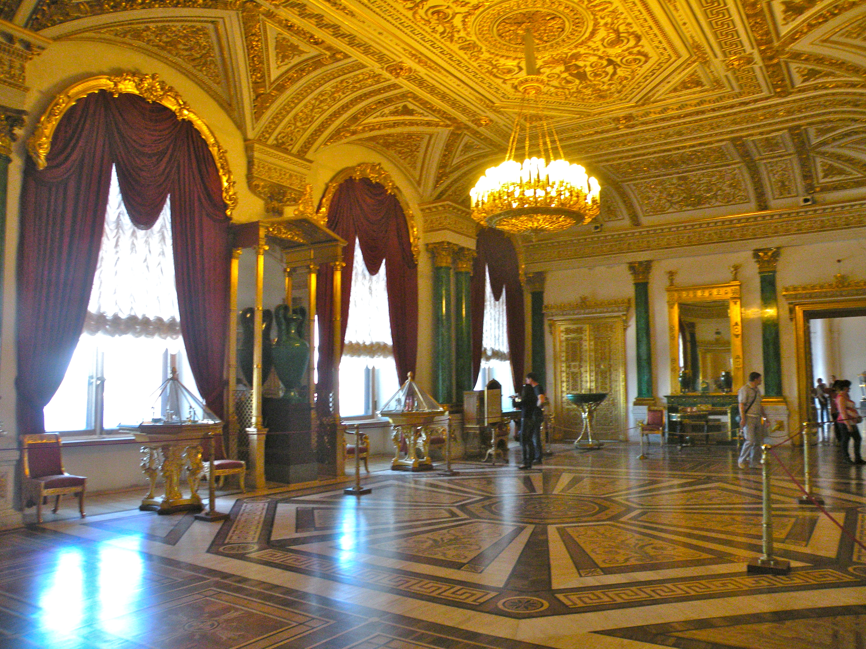 Malachite Room in Winter Palace